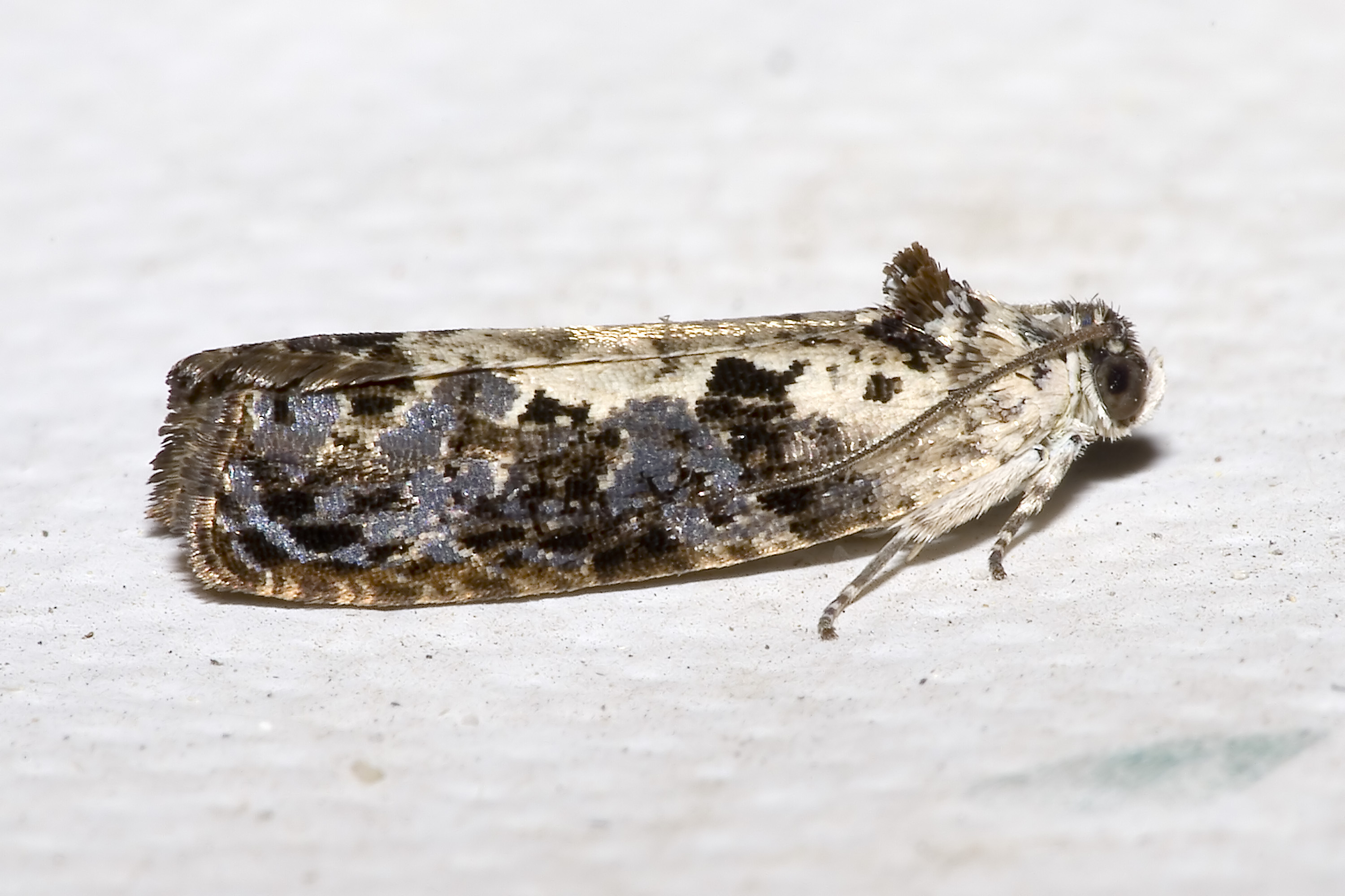 Hedya salicella (Linnaeus, 1758) Many thanks to Dietmar Laux for determination! Location: Dresden, Pohrsdorfer Weg (Saxony, Germany) 5/180L f16 Film / Speed: ISO 100 Comment: Canon Flash 580EX